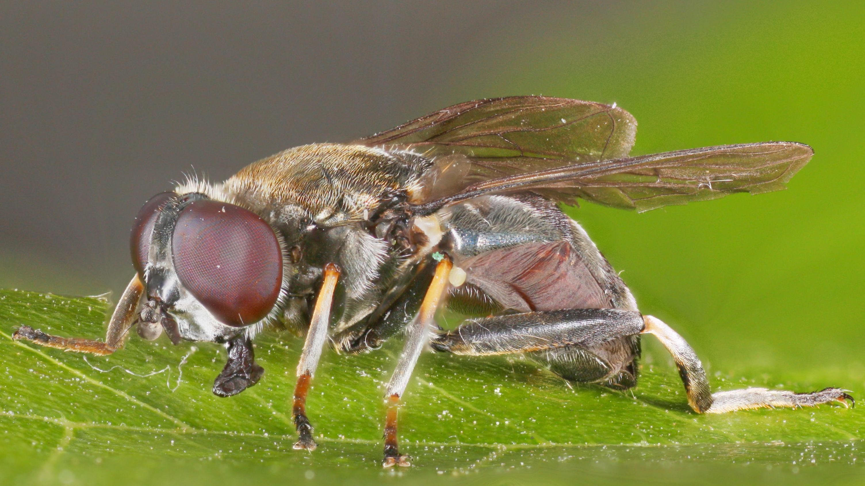 Female hoverfly Xylota jakutorum